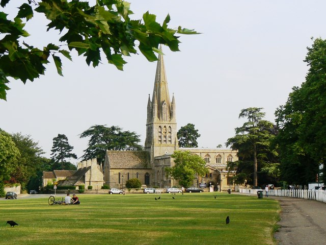 Church of England parish church of St Mary the Virgin, Church Green, Witney. This church was rebuilt in 1243.